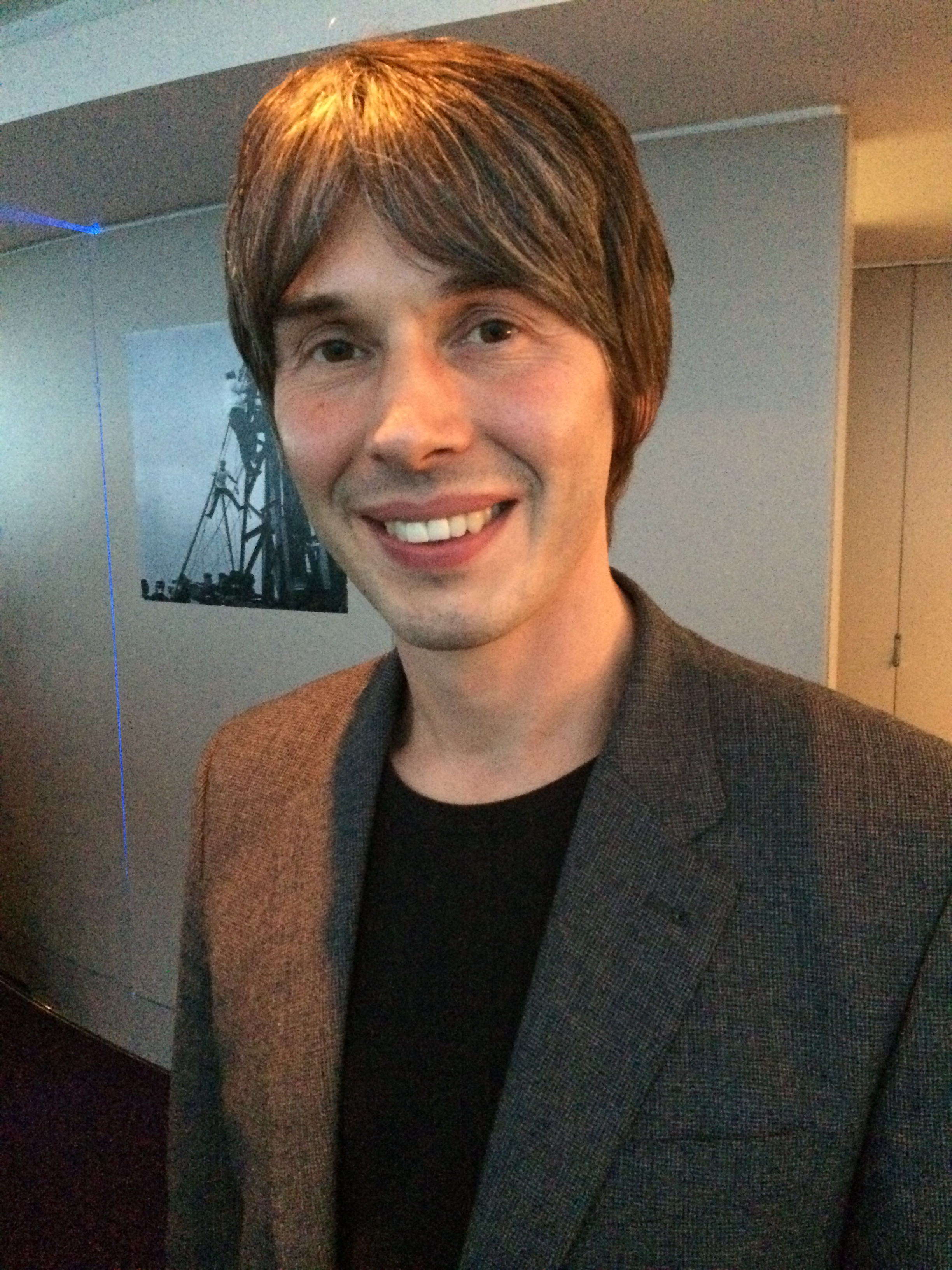 Prof Brian Cox